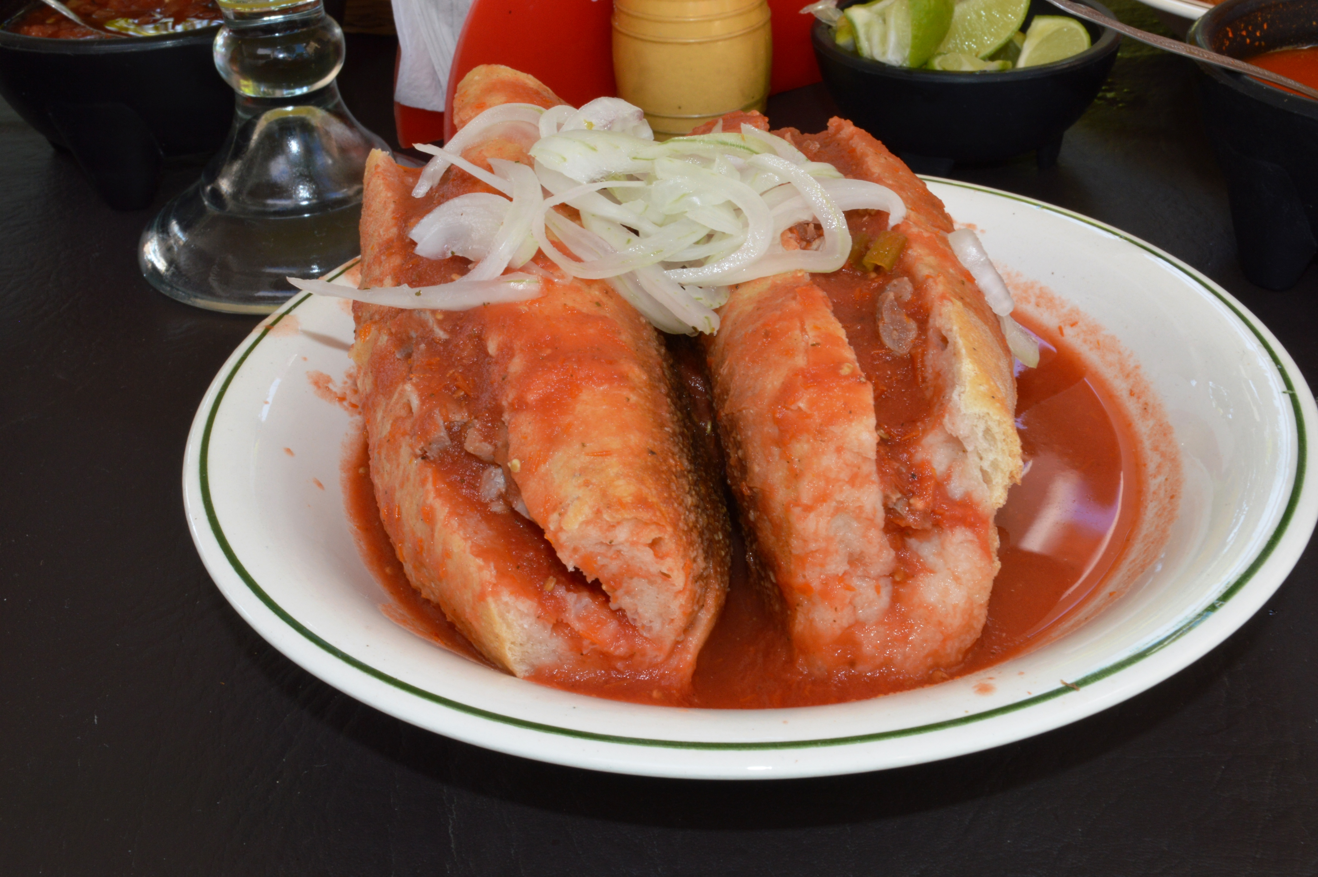 Torta ahogada served in Chapala, Jalisco